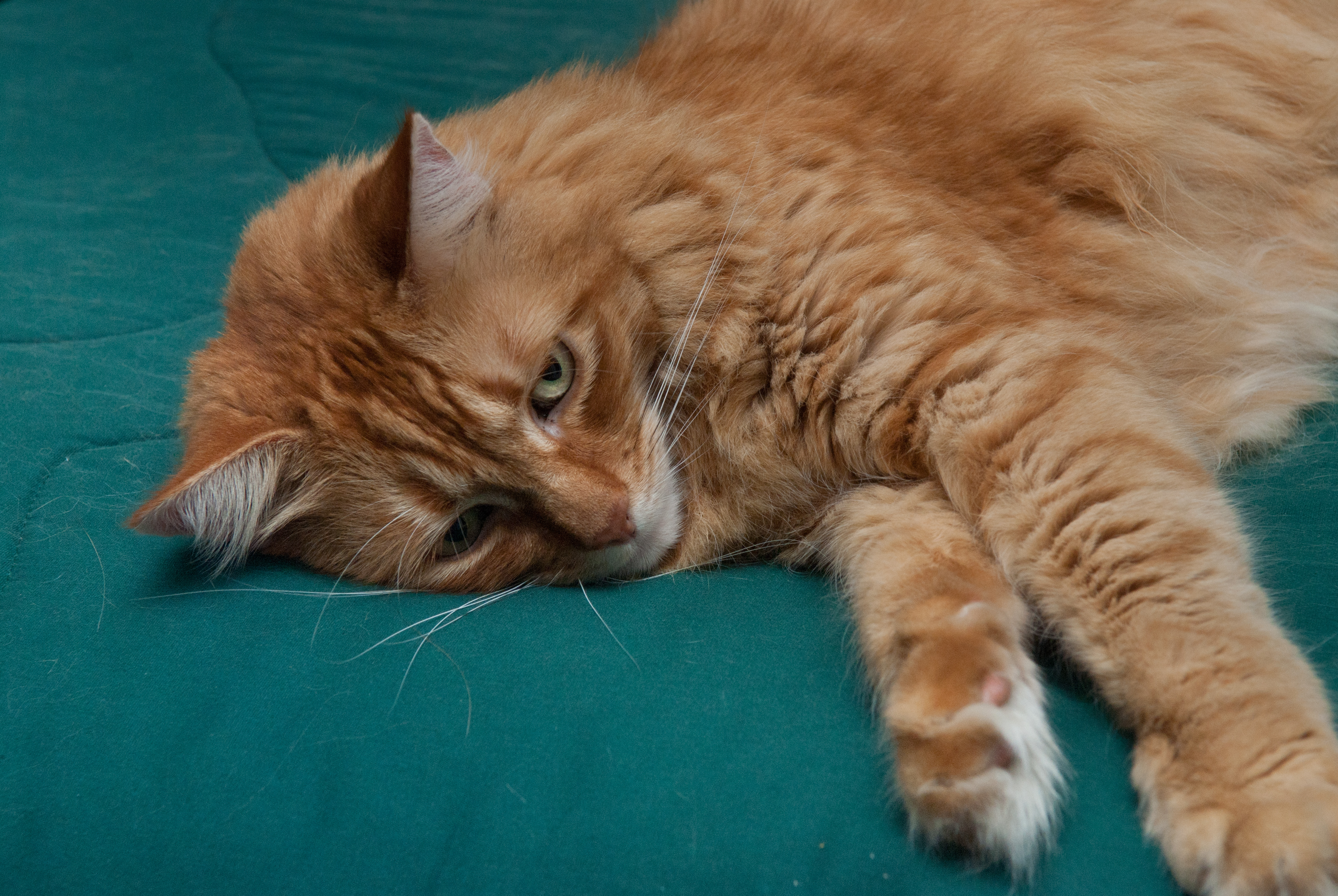 Still stuck indoors. Guess I might as well take a nap.